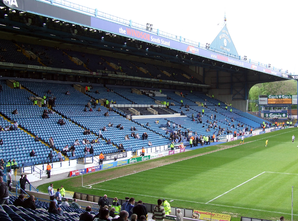 South stand at Hillsborough Stadium